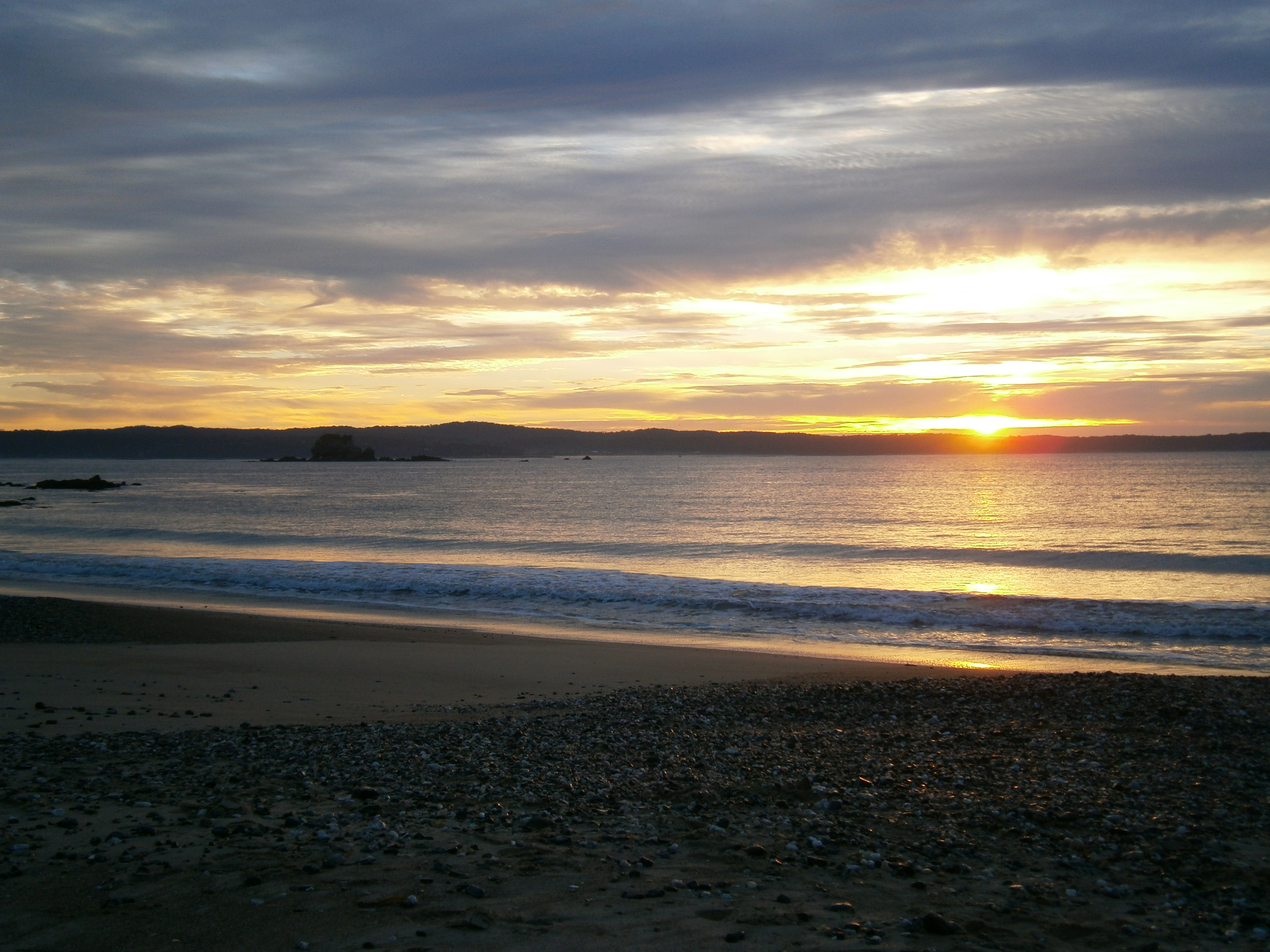 Sunrise at Corrigans Beach on 27 July 2013.